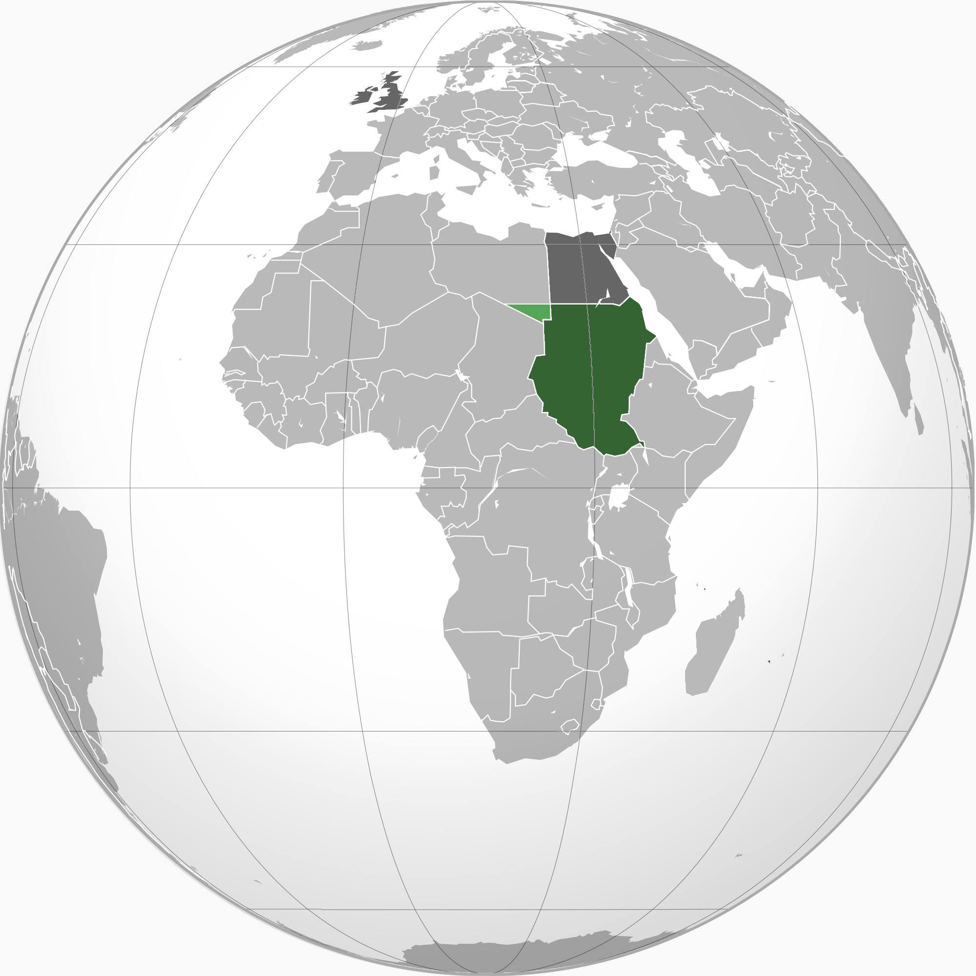 Green: Anglo-Egyptian SudanLight green: Ceded to Italian Libya in 1919[1]Dark gray: Egypt and the United Kingdom